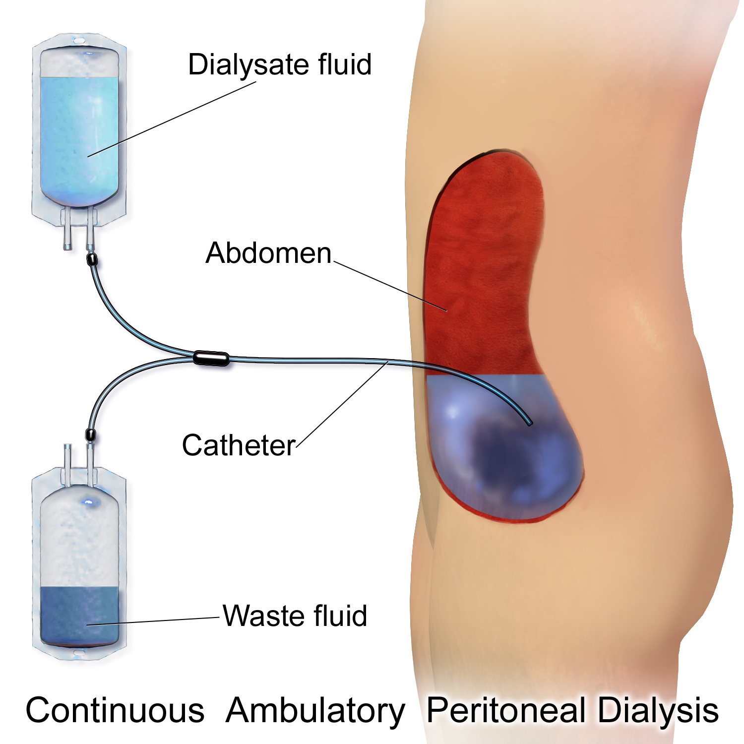 Continuous Ambulatory Peritoneal Dialysis (CAPD). This image was donated by Blausen Medical. Please visit our website to see more medical illustrations and animations.